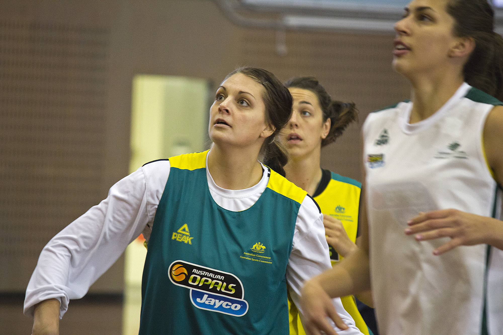 Cayla Francis, Marianna Tolo and Jenna O'Hea at day three of the Opals camp.